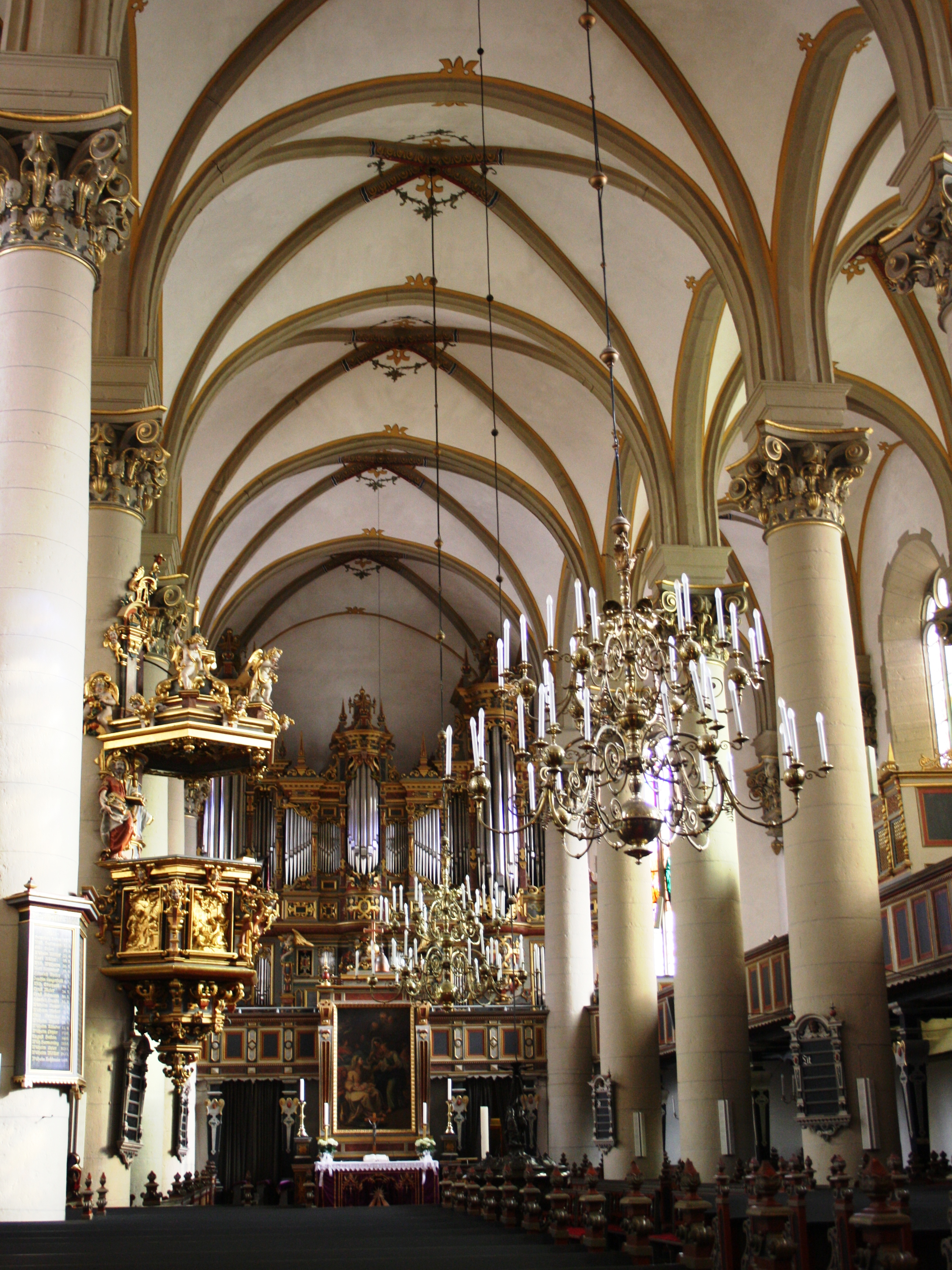 Townchurch in Bückeburg, Germany. Interior towards East.